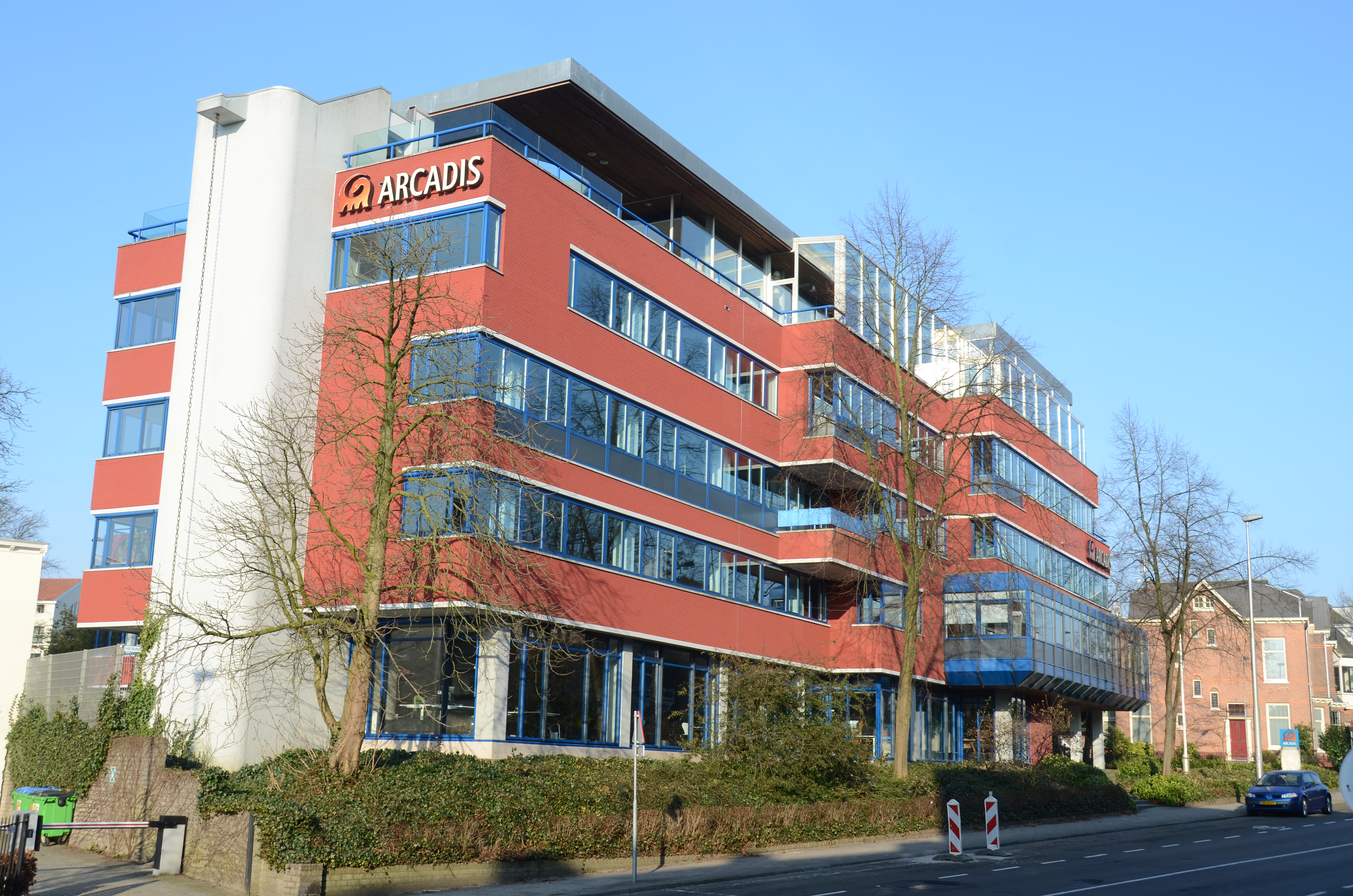 The Arcadis consulting engineers building at Arnhem Amsterdamseweg. Beaulieustraat 22, 6814 DV Arnhem, Нидерланды